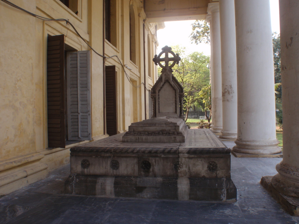 Grave of Charlotte Lady Canning St John's Church Calcutta November 2011. Inscription reads [ Sacred to the memory of Charlotte Elizabeth eldest daughter of lord Stuart de Rothesay born at Paris 31st march 1817 died at Calcutta 18th November 1861 Wife of Charles John Viscount and Earl Canning first Viceroy of India ]